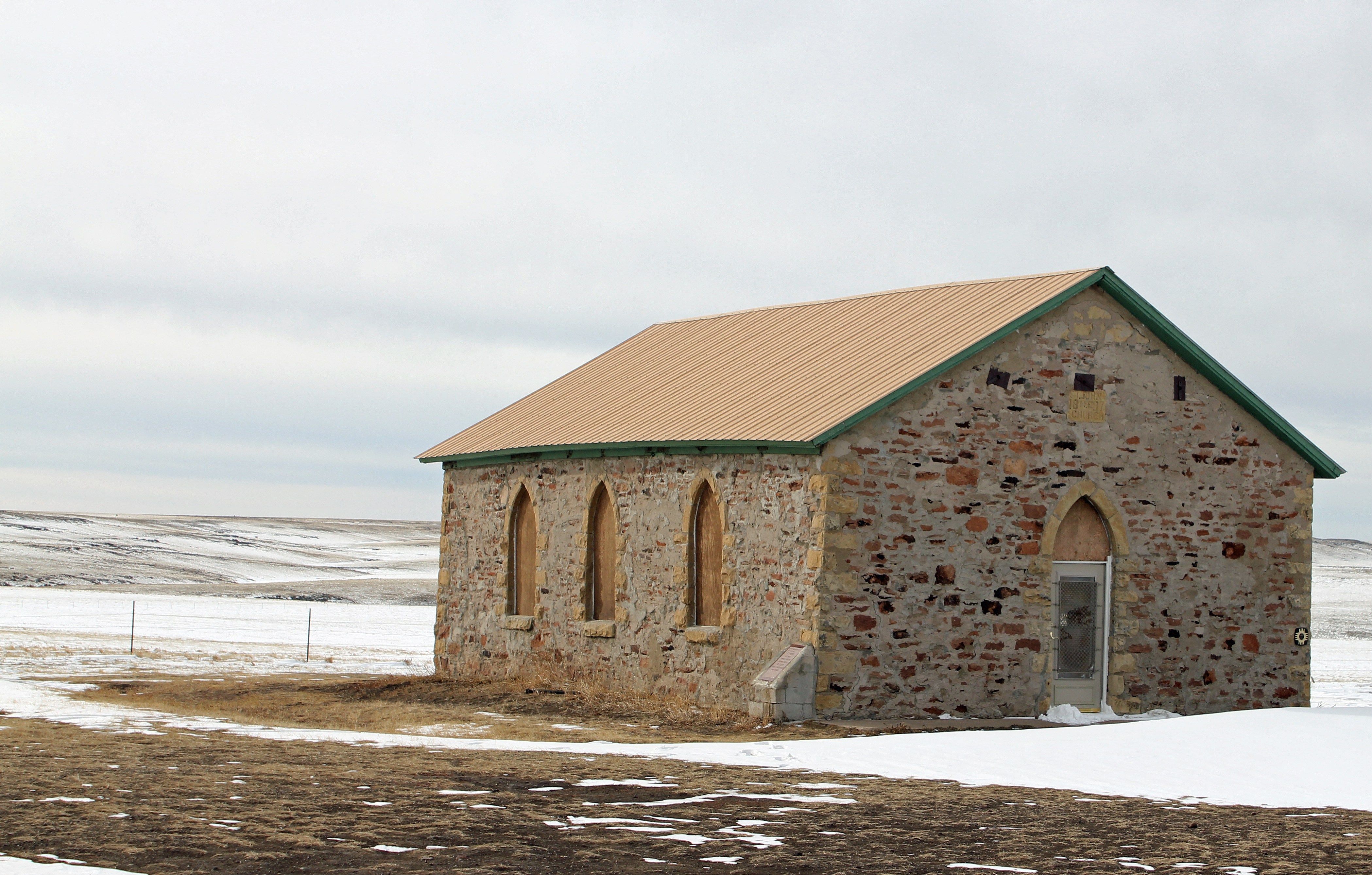 The St. John's Methodist Episcopal Church, located 17 miles (27 km) east of Raton, New Mexico on State Road 72 on Johnson Mesa. The property is listed on the National Register of Historic Places.